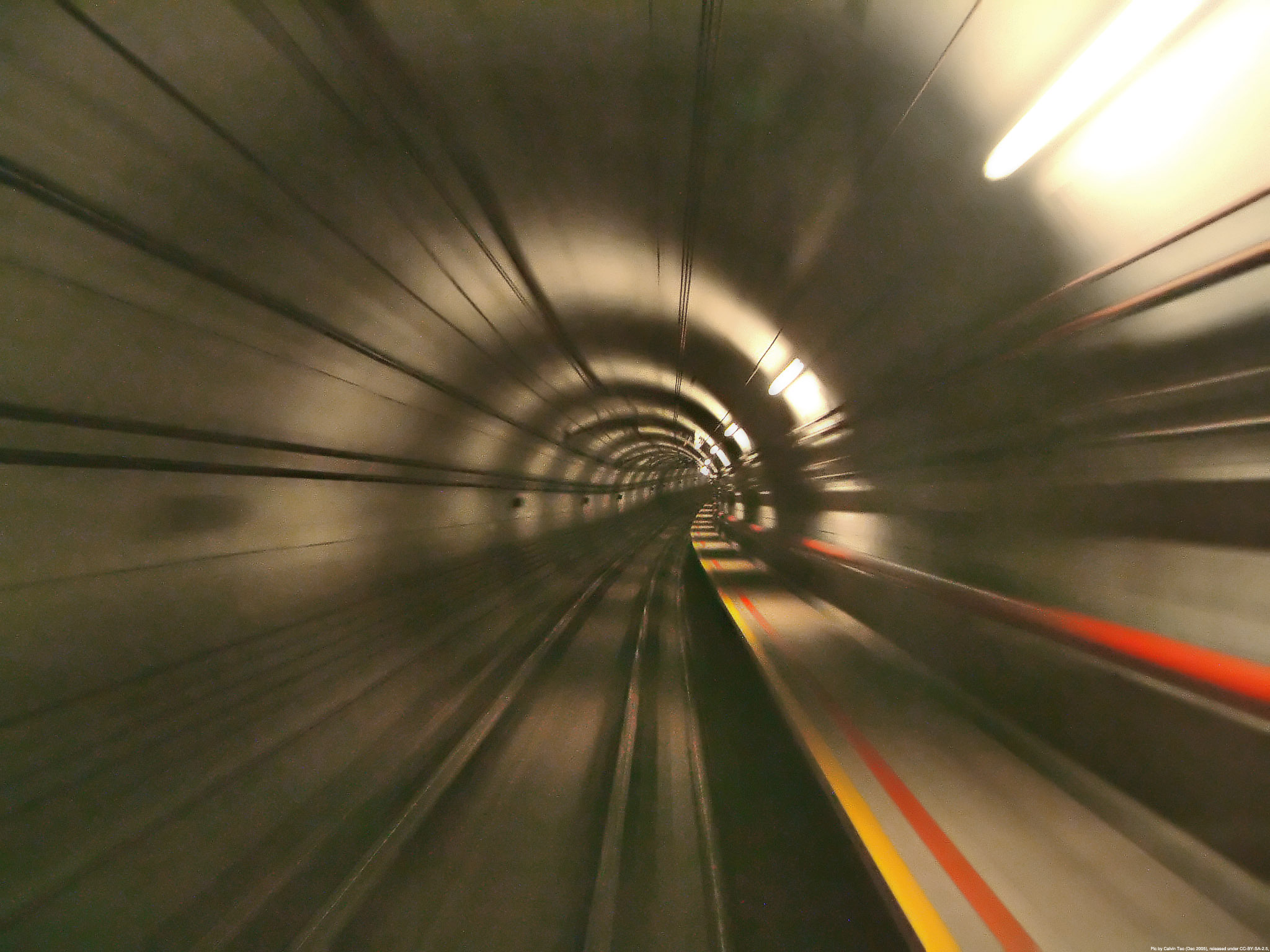 The view of the tunnels along the North East Line, as the train is heading northwards towards Punggol Terminal.